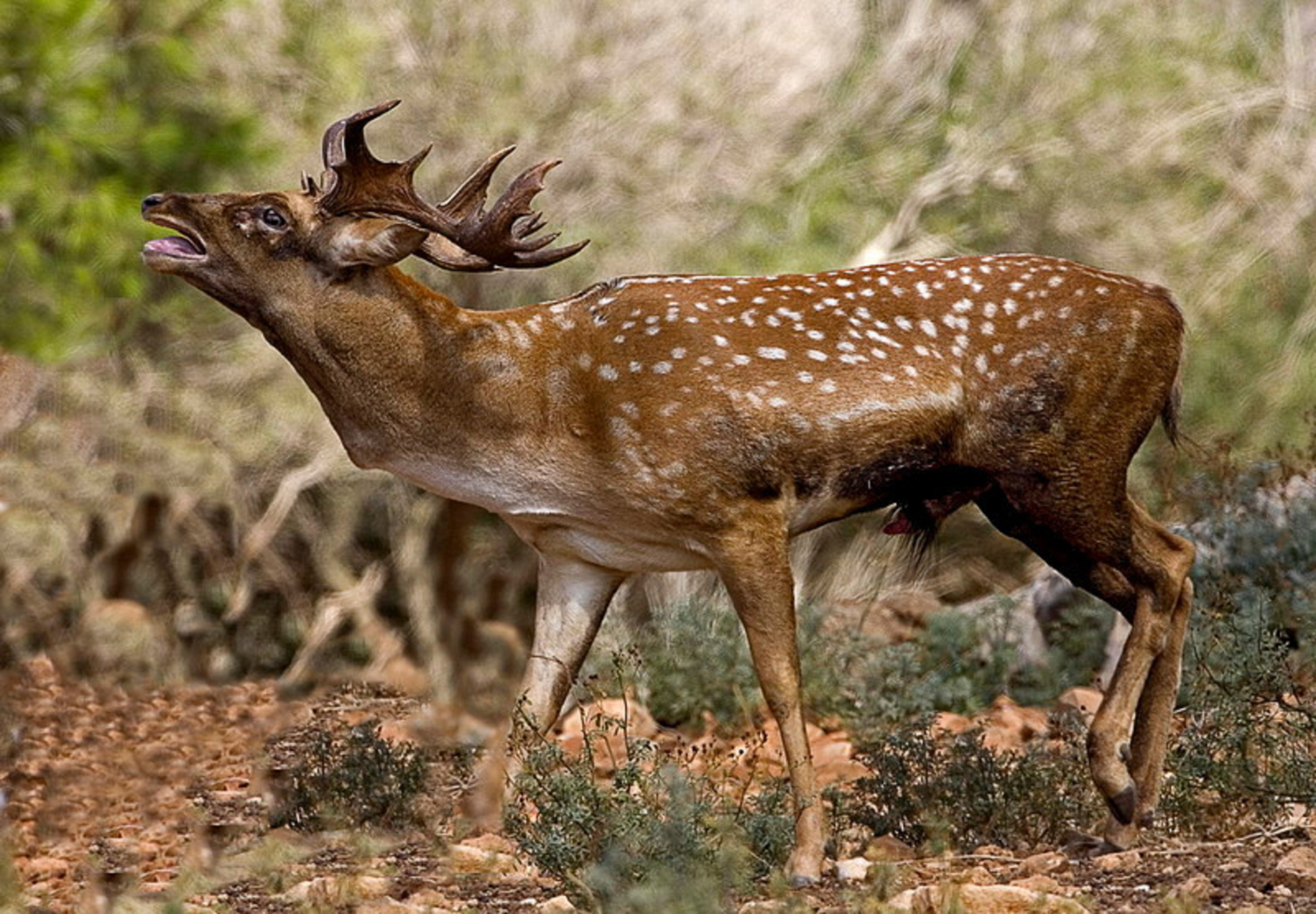 A male Persian Fallow Deer in Mount Carmel Nature Preserve (Israel).